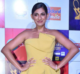 Kubbra Sait graces the Zee Cine Awards, 2019